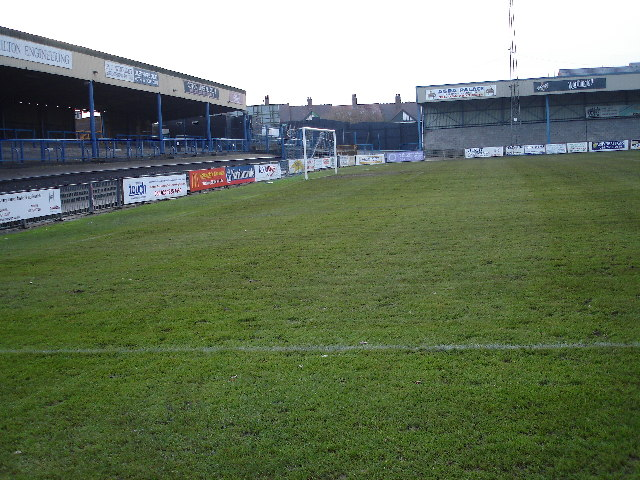 Manor Park, soon-to-be-former home of Nuneaton Borough A.F.C., photographed by Peter Lloyd.